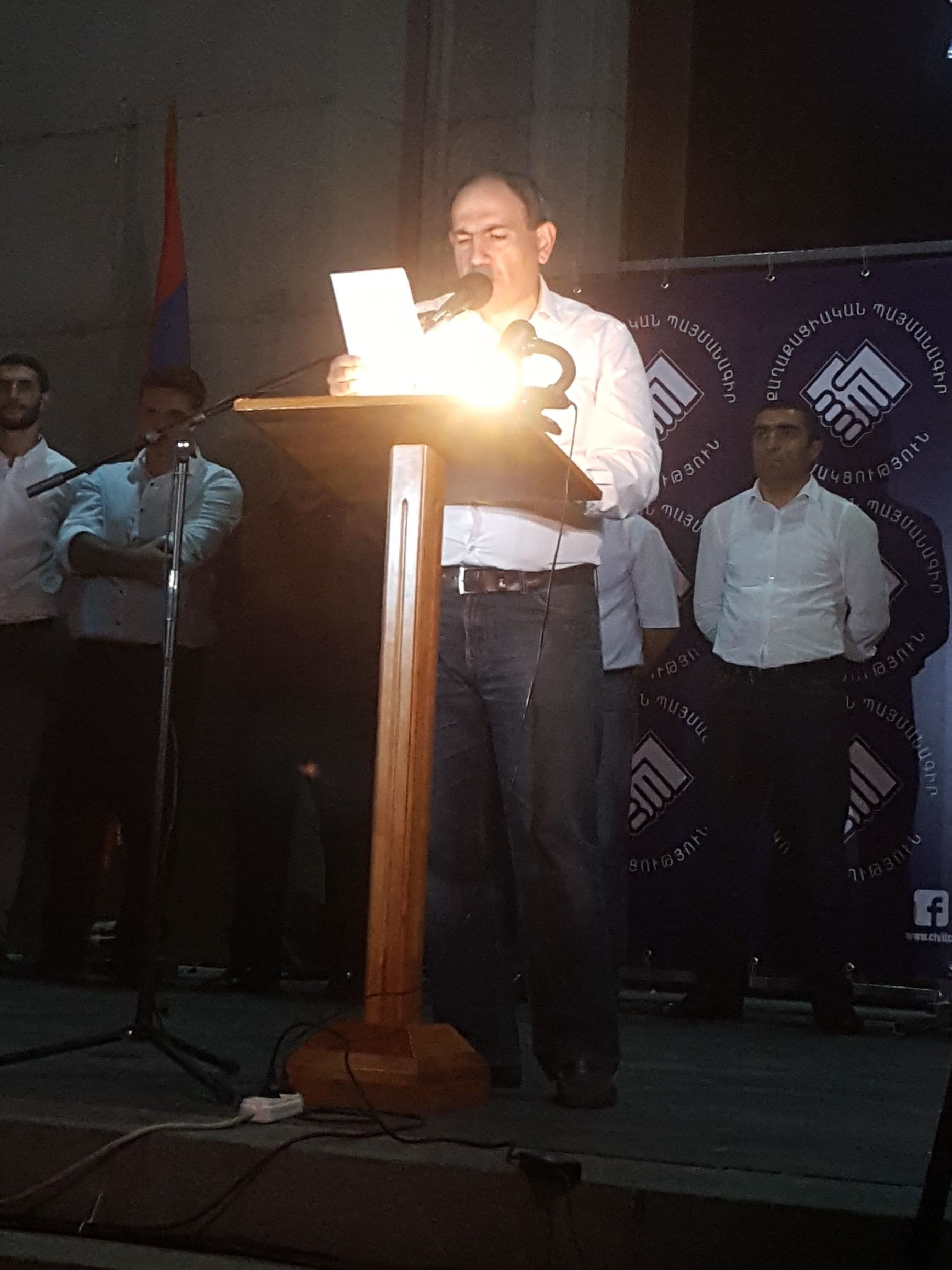 Nikol Pashinyan at a rally in Freedom Square, Yerevan, 10 September 2016